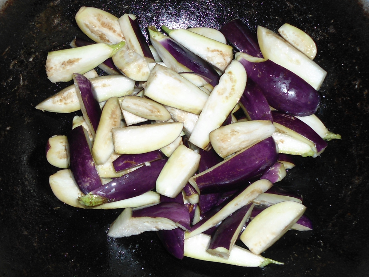 Chopped Brinjal (food) being cooked in Visakhapatnam, India